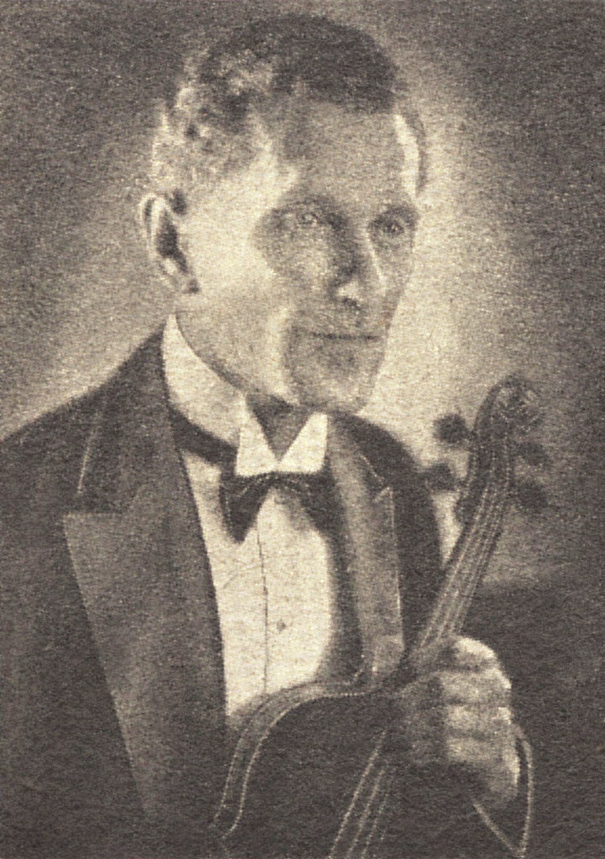 Eduard Hladisch (1890–1968), Austrian composer and musician. Photo from the record sleeve of a 1932 issue on the Swedish Veckans skiva label. Picture source: the collection of Fredrik Tersmeden (Lund, Sweden)